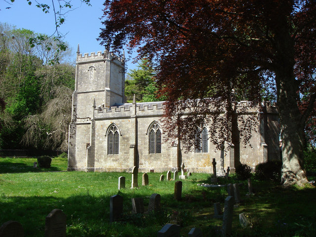 Holy Trinity parish church, Fleet, Dorset, seen from the southeast